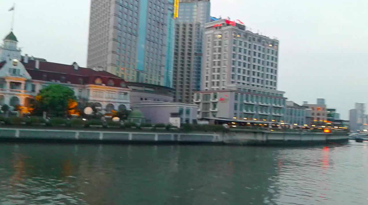 Russian Consulate and Seagull Hotel, Shanghai